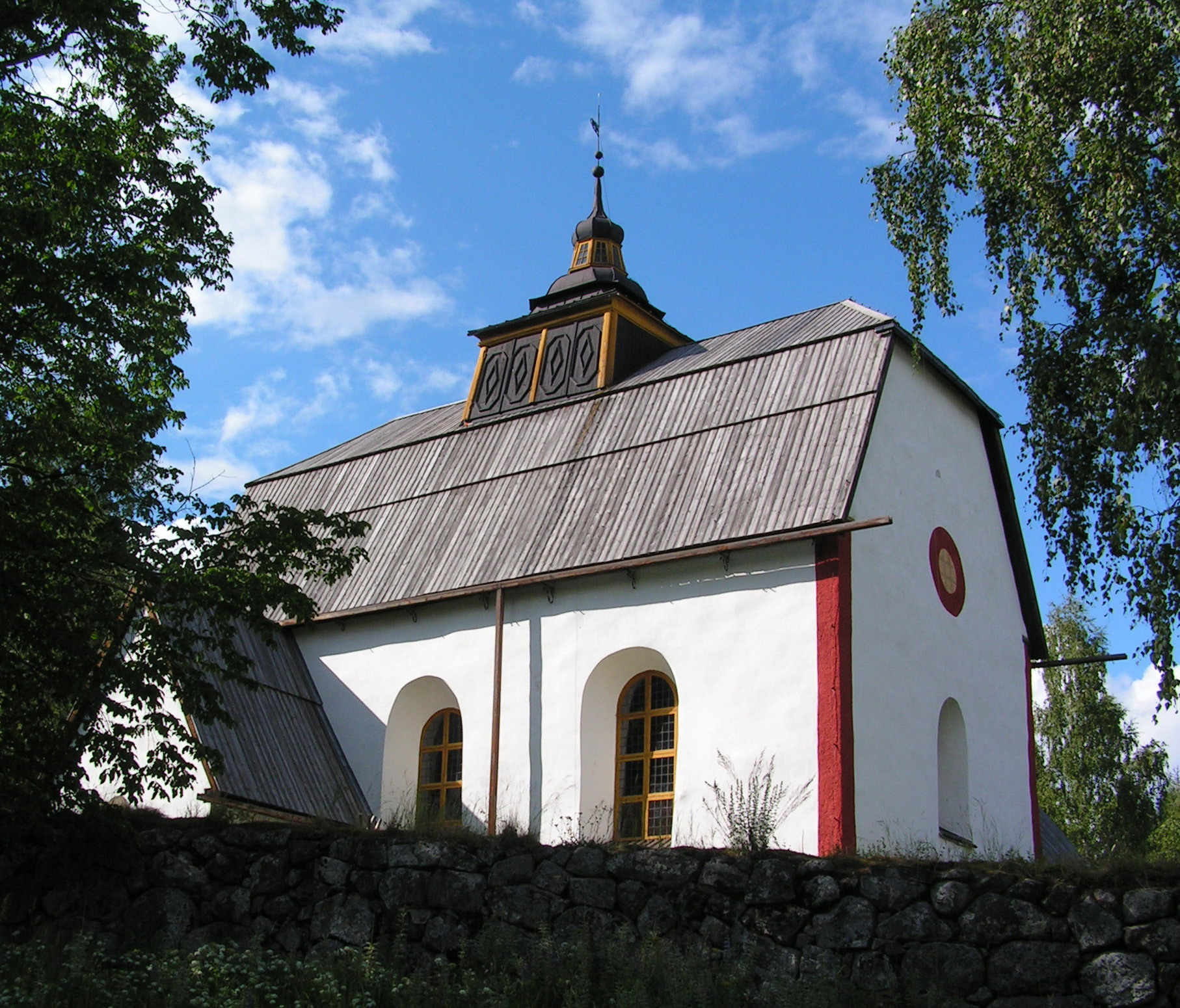 Exterior